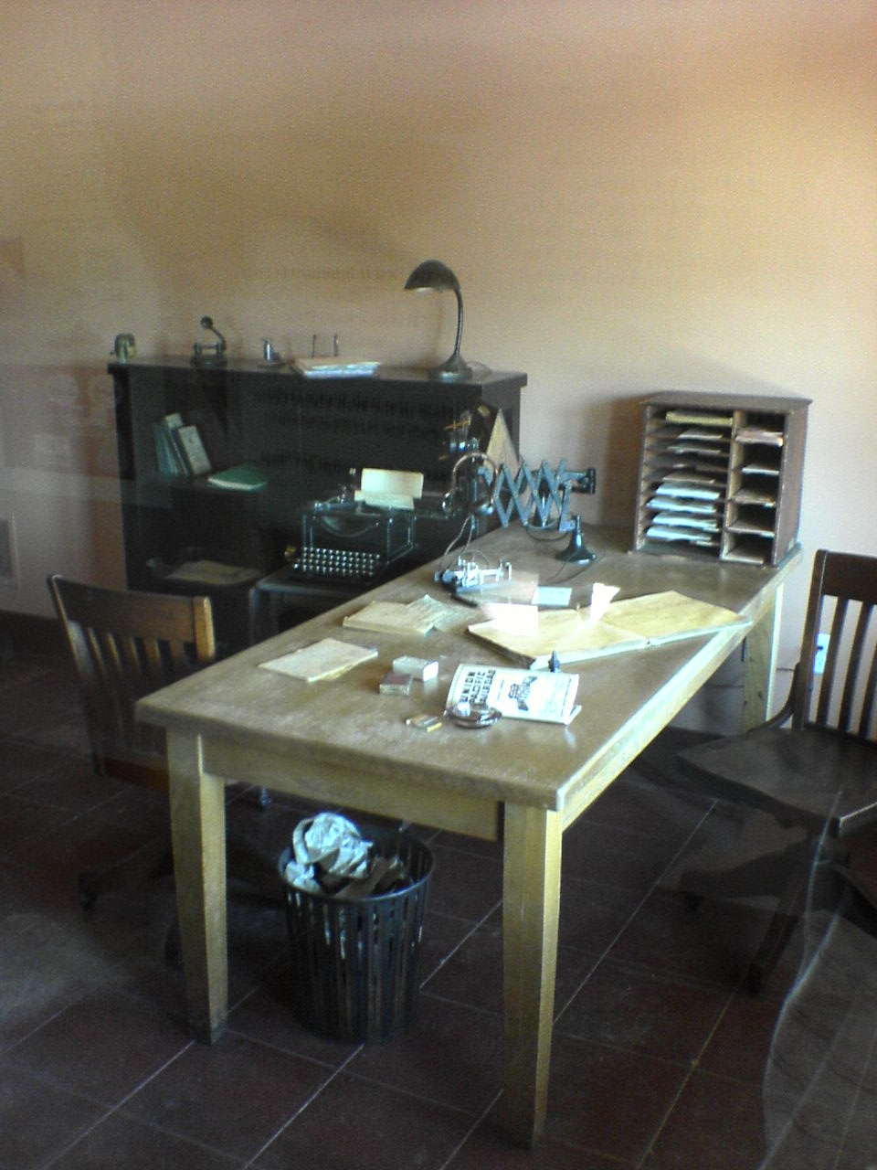 Photo of Kelso depot telegraph office taken February, 2006. Photographer releases all rights worldwide.